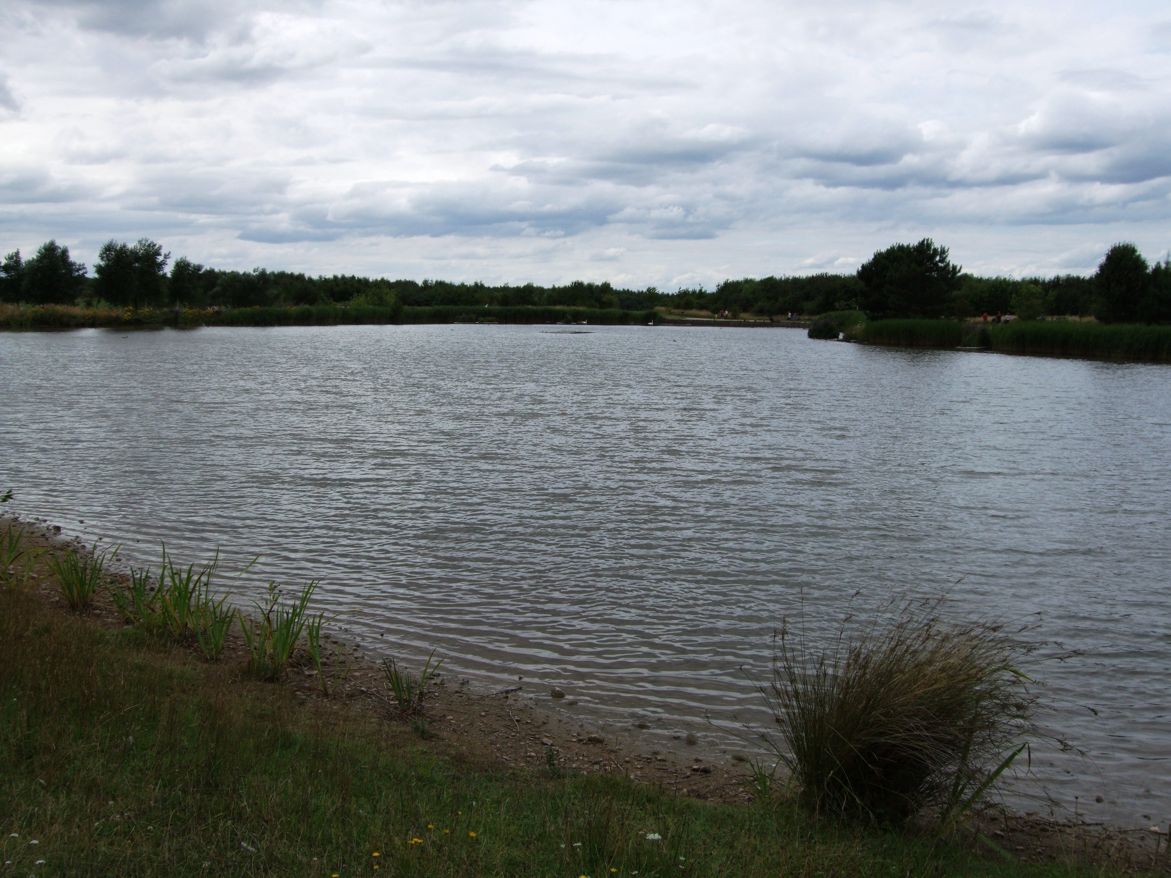 View of Rushcliffe Park